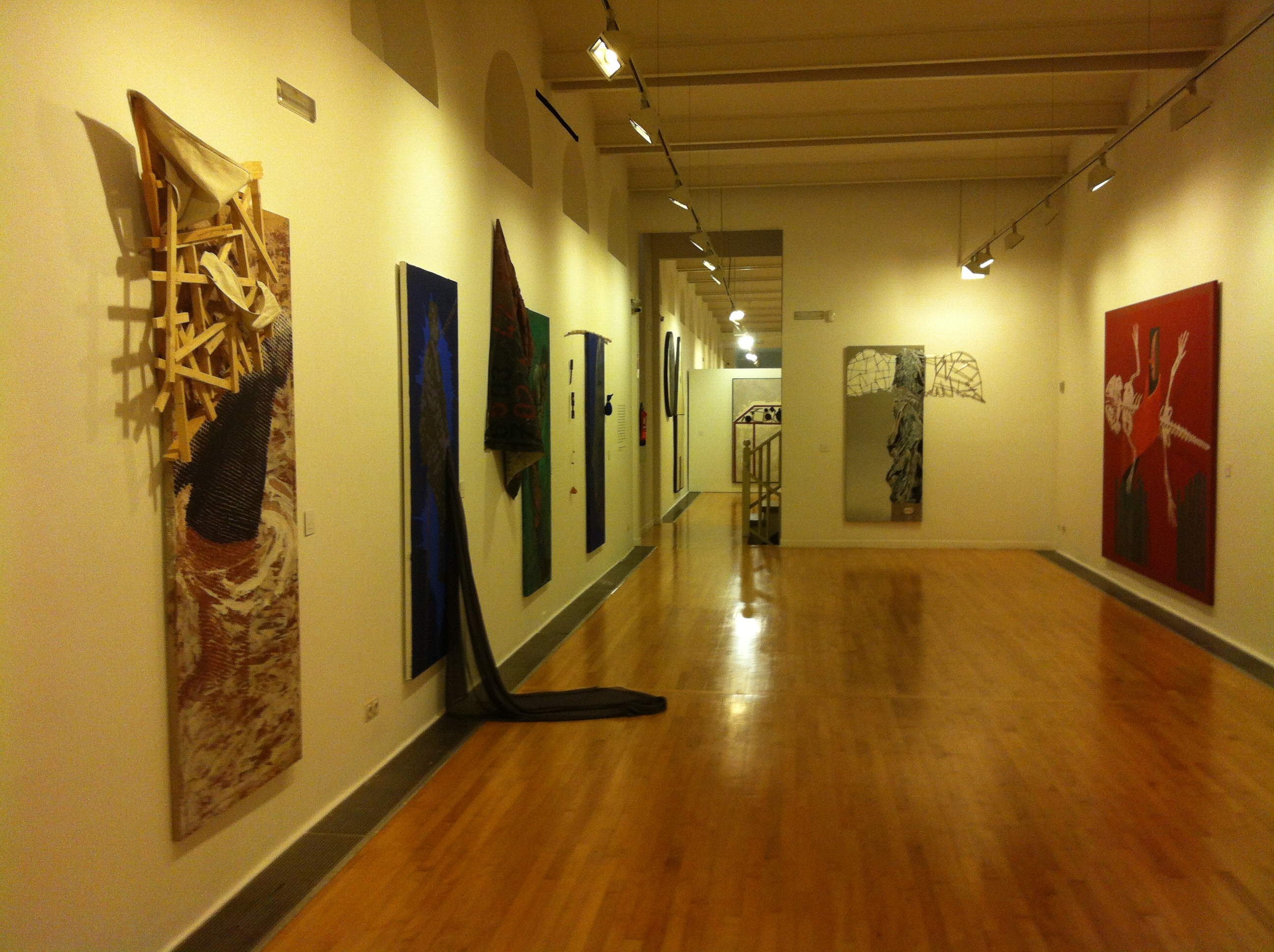 Artur Heras exhibit at Museu d'Art de Sabadell